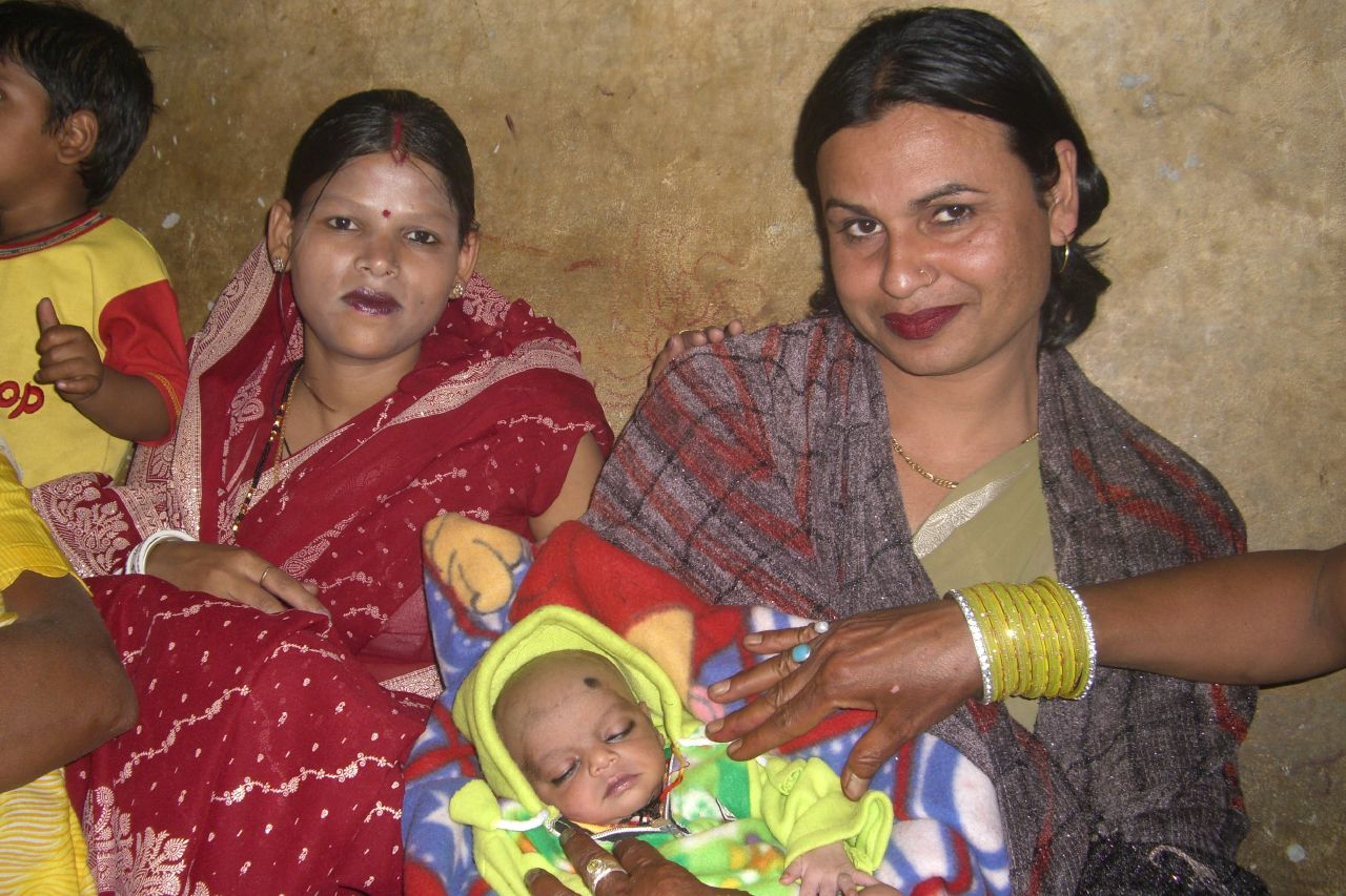 To celebrate his sixth day of life, this baby's hair was ritualistically shaved. It is one of 16 samskara in a Hindu's life. It is not mandatory like most sanskar, but is typically practiced as a rite of passage. The haircut may occur few days after the birth or months later. The black liner on his eyes is kajol, which many Indians believe to be protective. The new mother is wearing her wedding sari, and throughout the night, she spoke with well-wishers, watched the performances and discreetly breastfed.